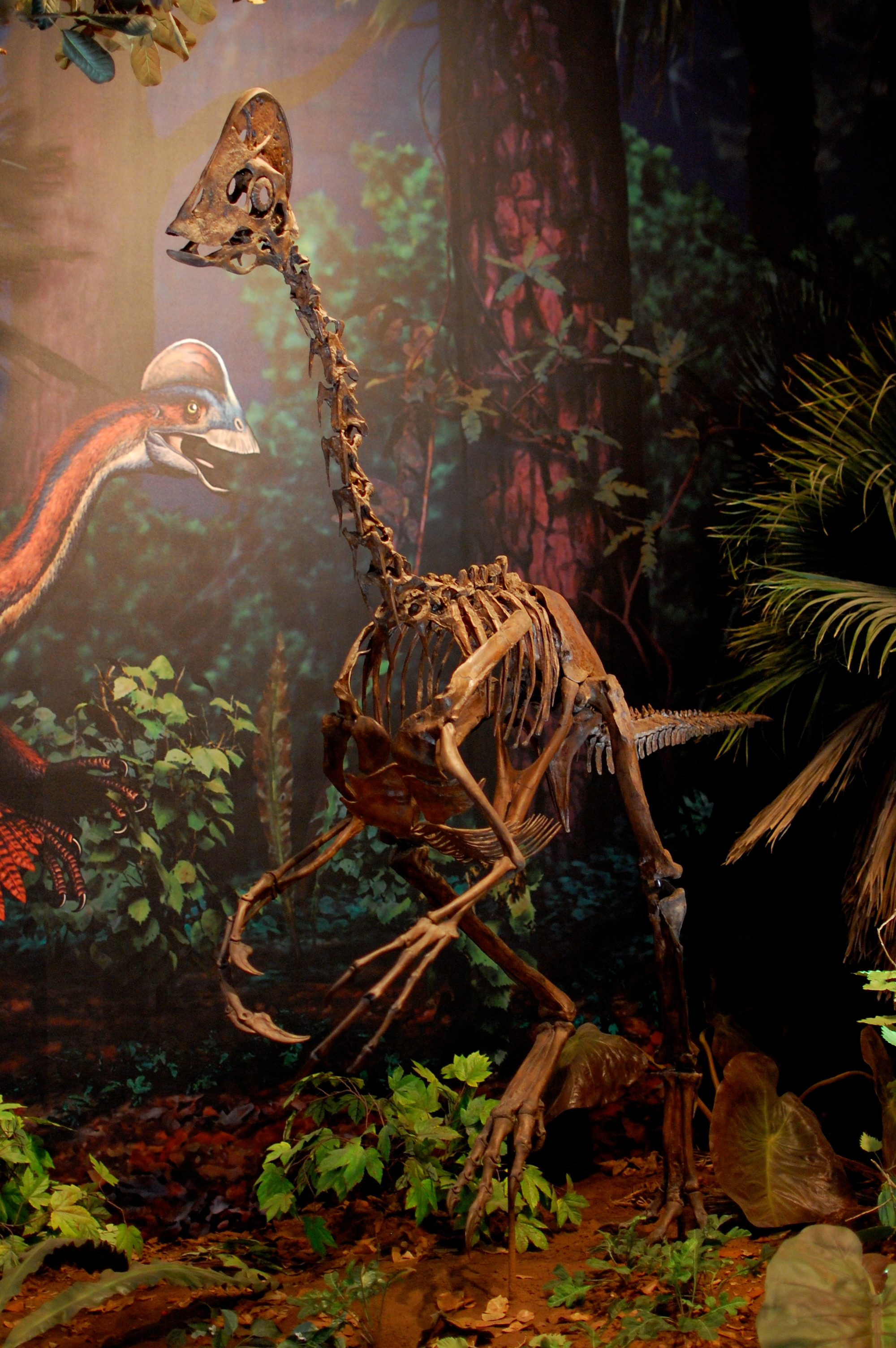 Restored skeleton of Anzu wyliei (previously labelled as a specimen of Chirostenotes)